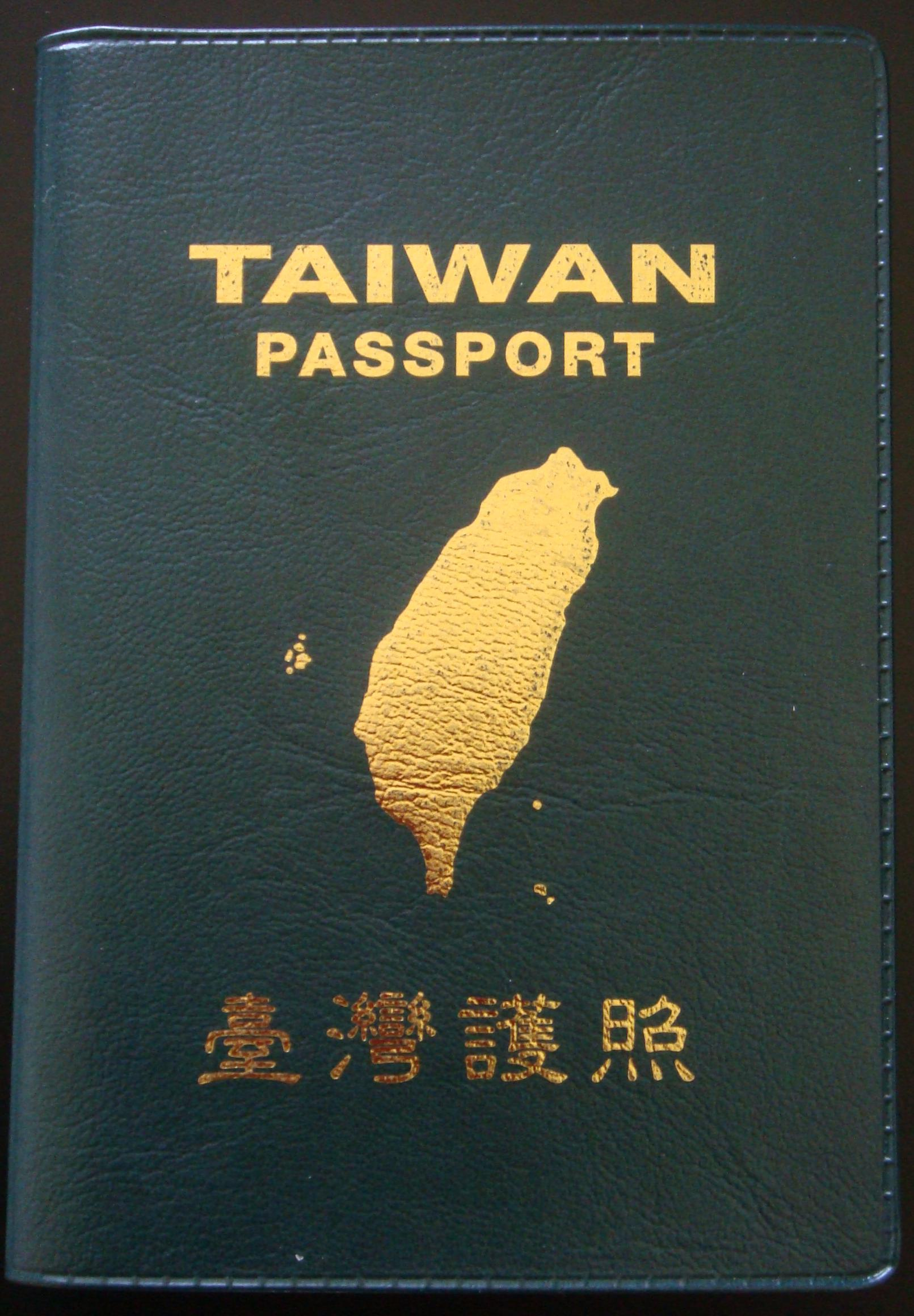 Plastic protective cover for Republic of China(Taiwan) passport. 中文（台灣）: 台灣護照是中華民國護照的塑膠包裝